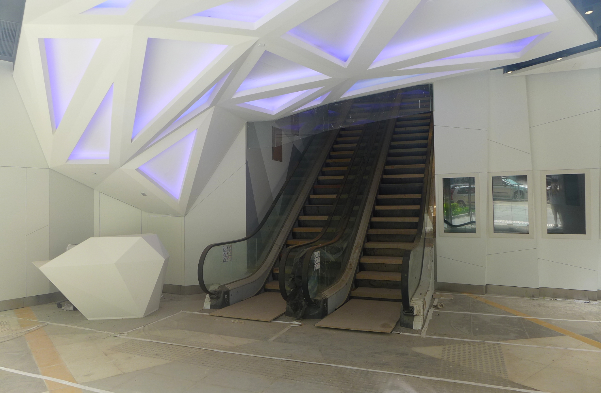 Trinity Towers Mall Entrance